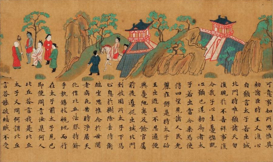 Illustrated Sutra of Cause and Effect, Ohara Museum of Art, Kurashiki, Okayama, Japan